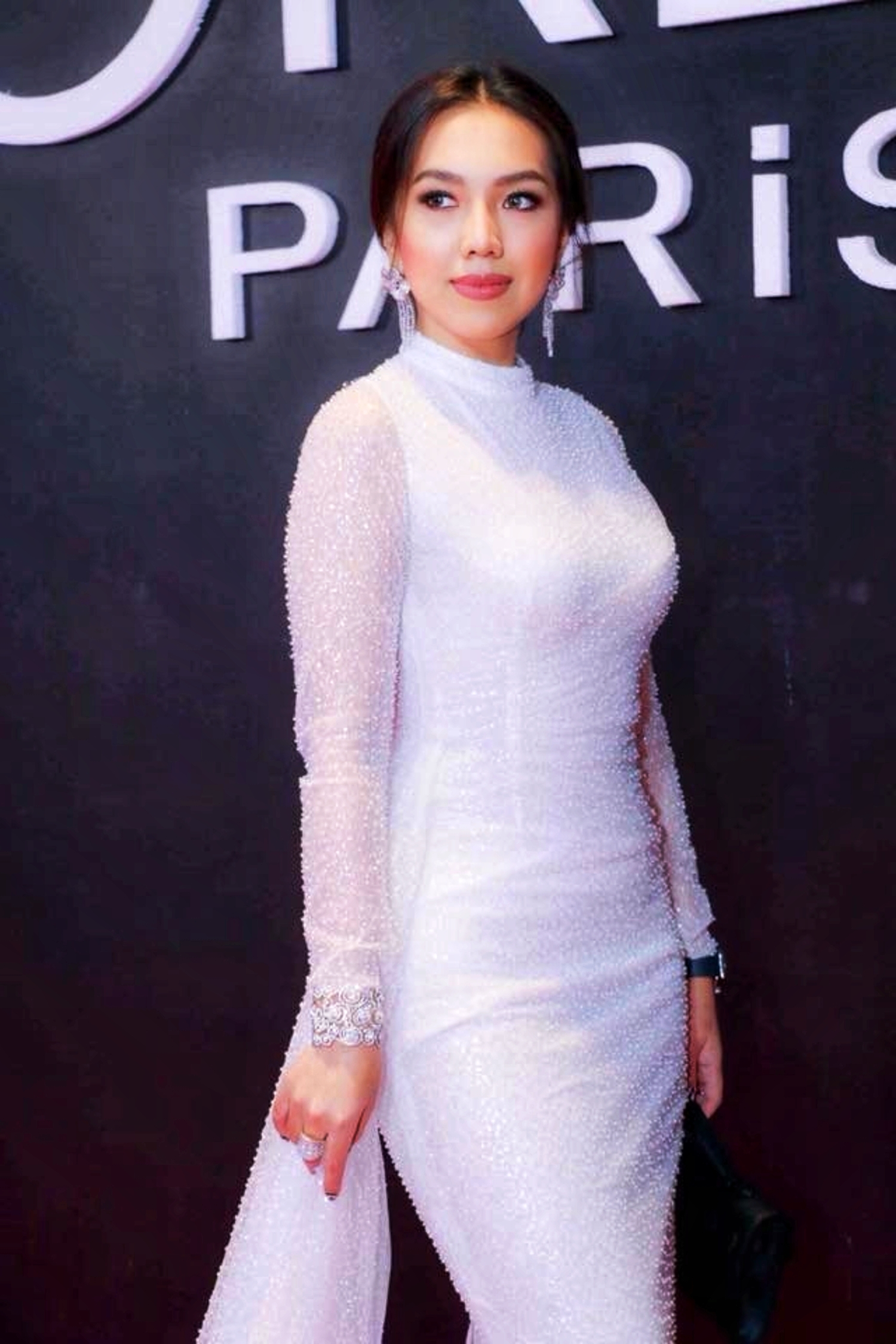 Warso Moe Oo is a actress and singer from Myanmar.